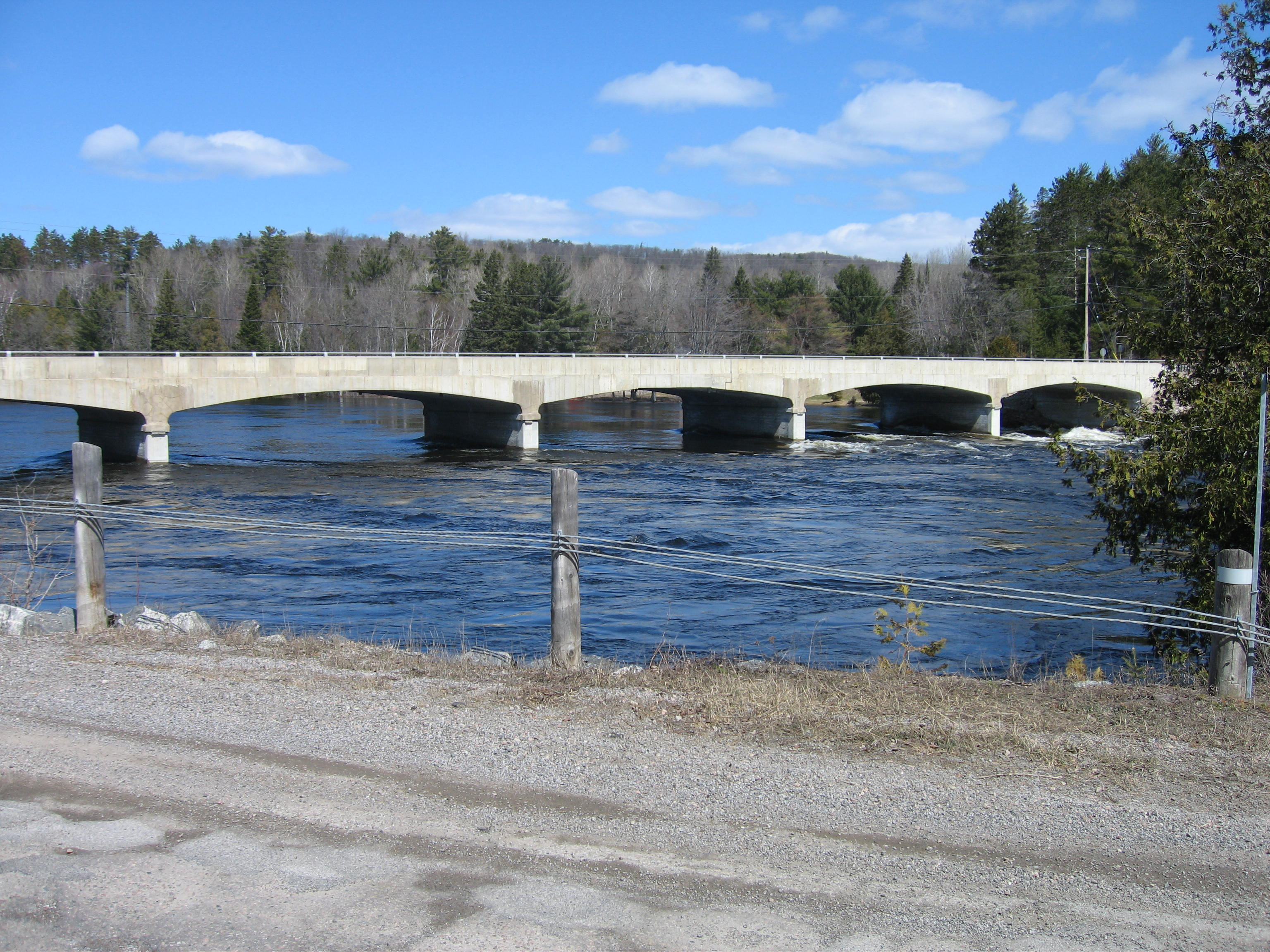 Highway 41 bridge over the Madawaska at Griffith, Ontario